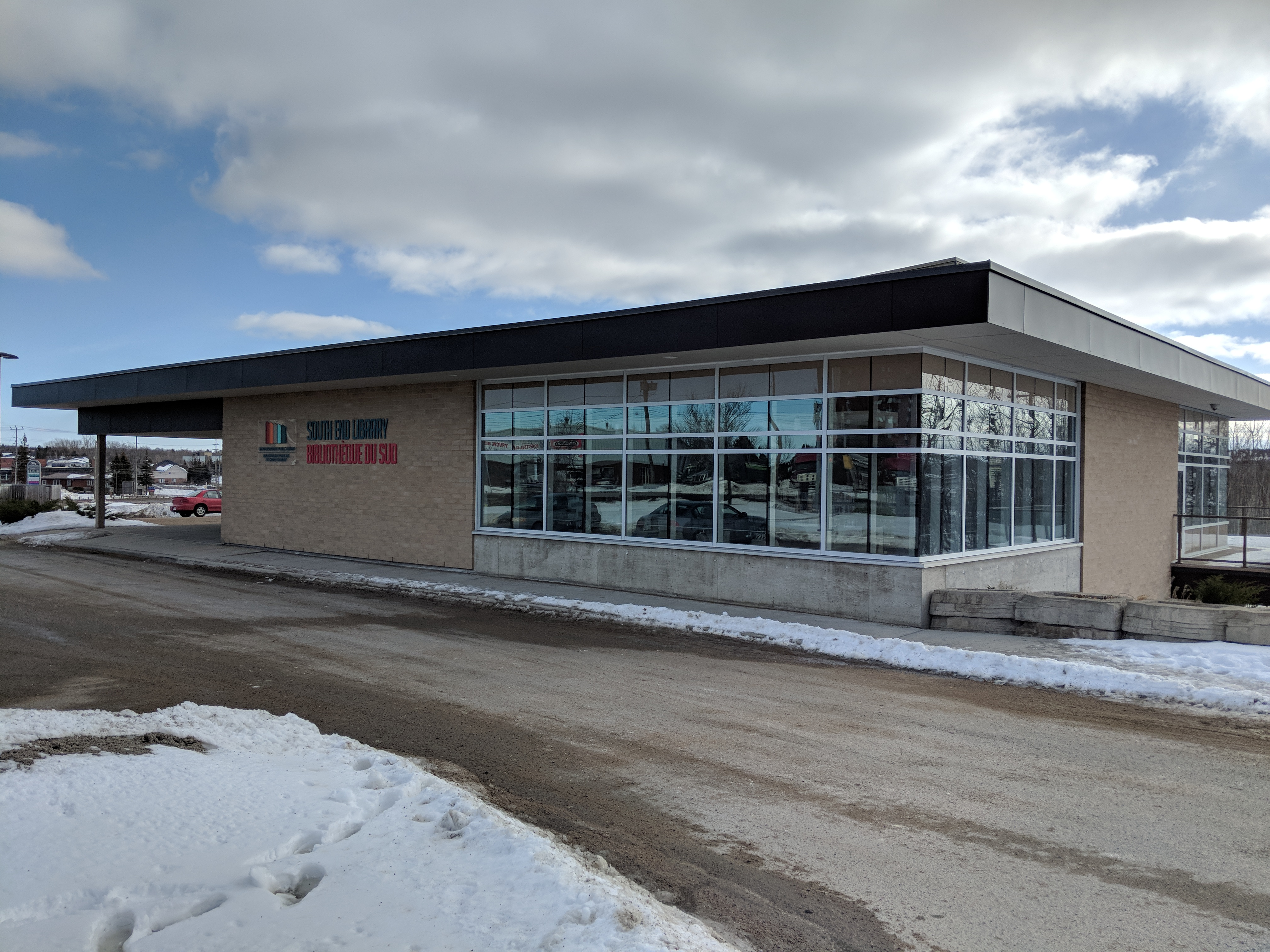 Outside of the South End branch of the Greater Sudbury Public Library